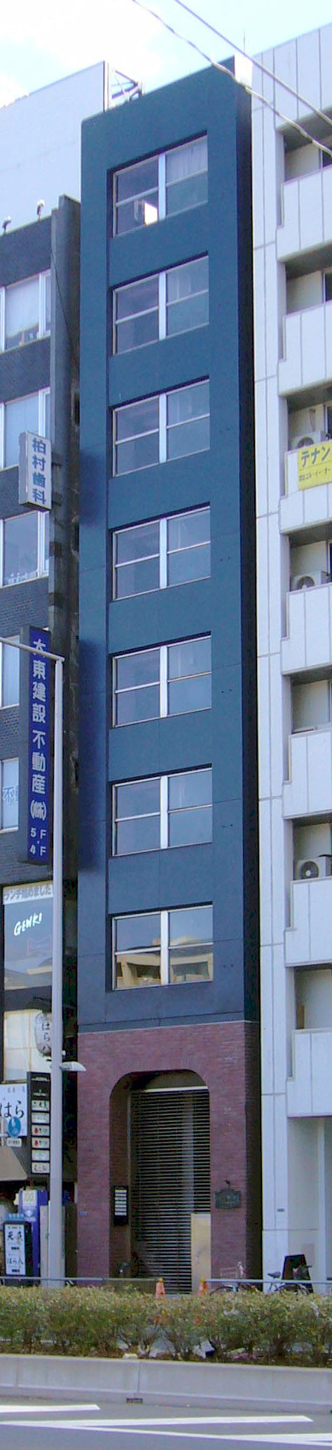 Naoki Building (Office building in Tokyo, Japan)